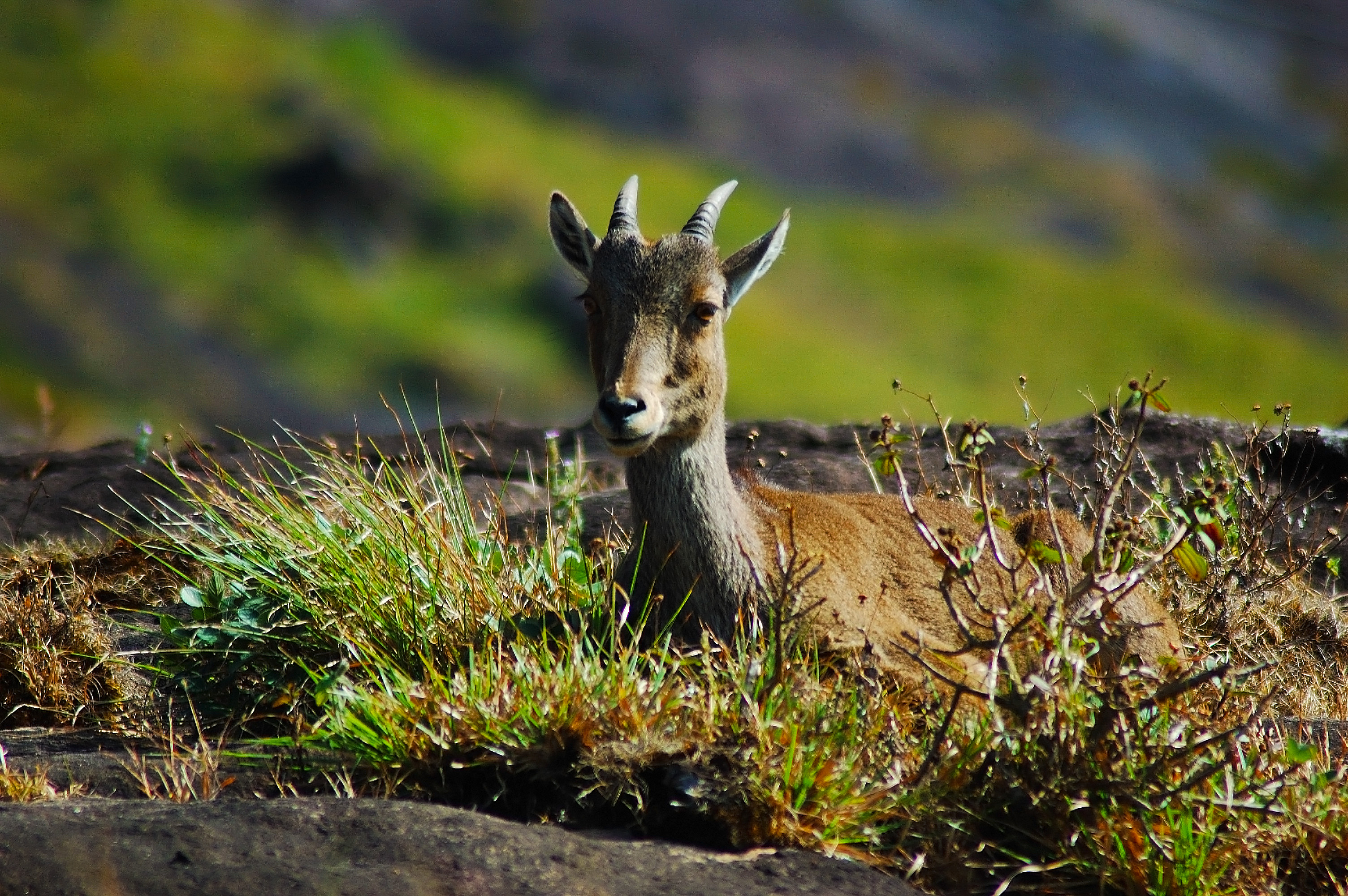 Nilgiri Tahr, spotted in Eravikulam National Park, Kerala, India